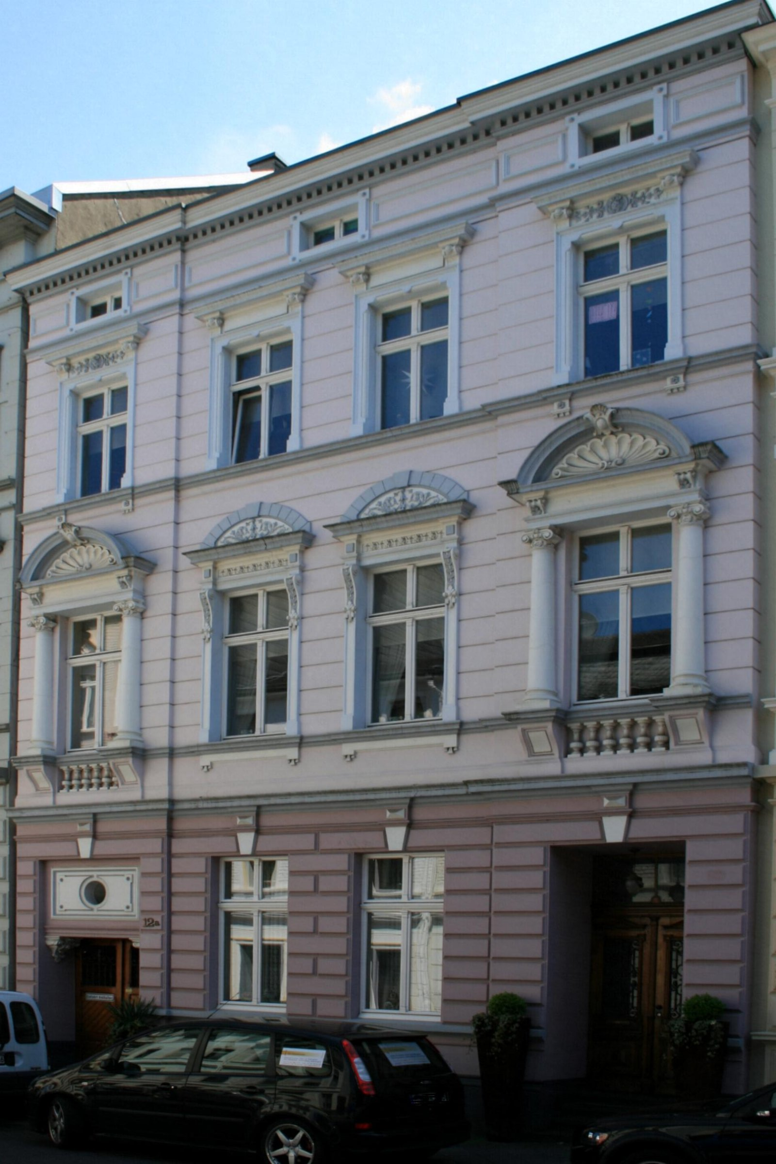 Cultural heritage monument No. F 029 in Mönchengladbach